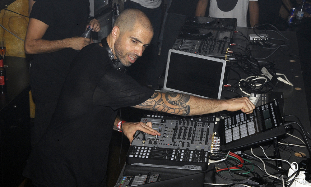 30.07.12 - Cocoon. More pics at